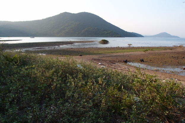 赤徑的泥灘